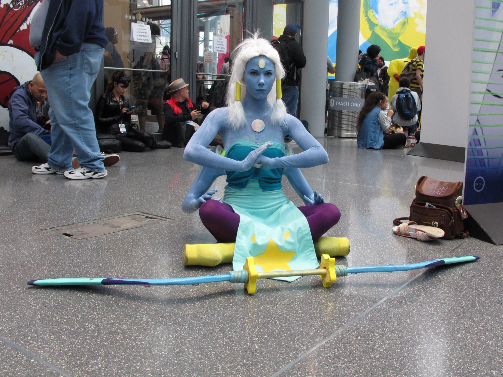 Cosplay at the 2014 New York Comic Con.